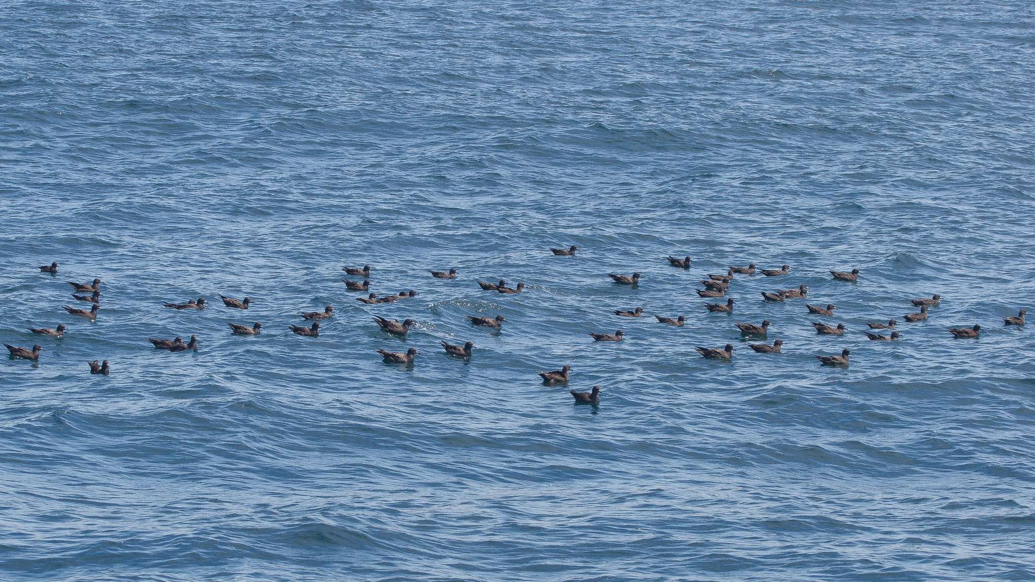 Part of a raft of 75 on the sea together. c500 were seen on the day: only the second record for Kerala.